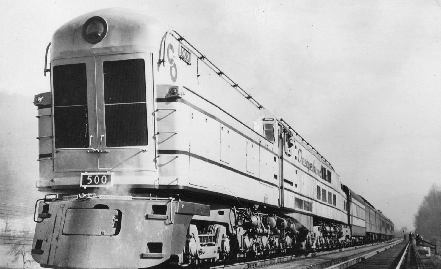 Postcard photo of Chesapeake and Ohio Railway's "500"-a coal-fired steam turbine locomotive.